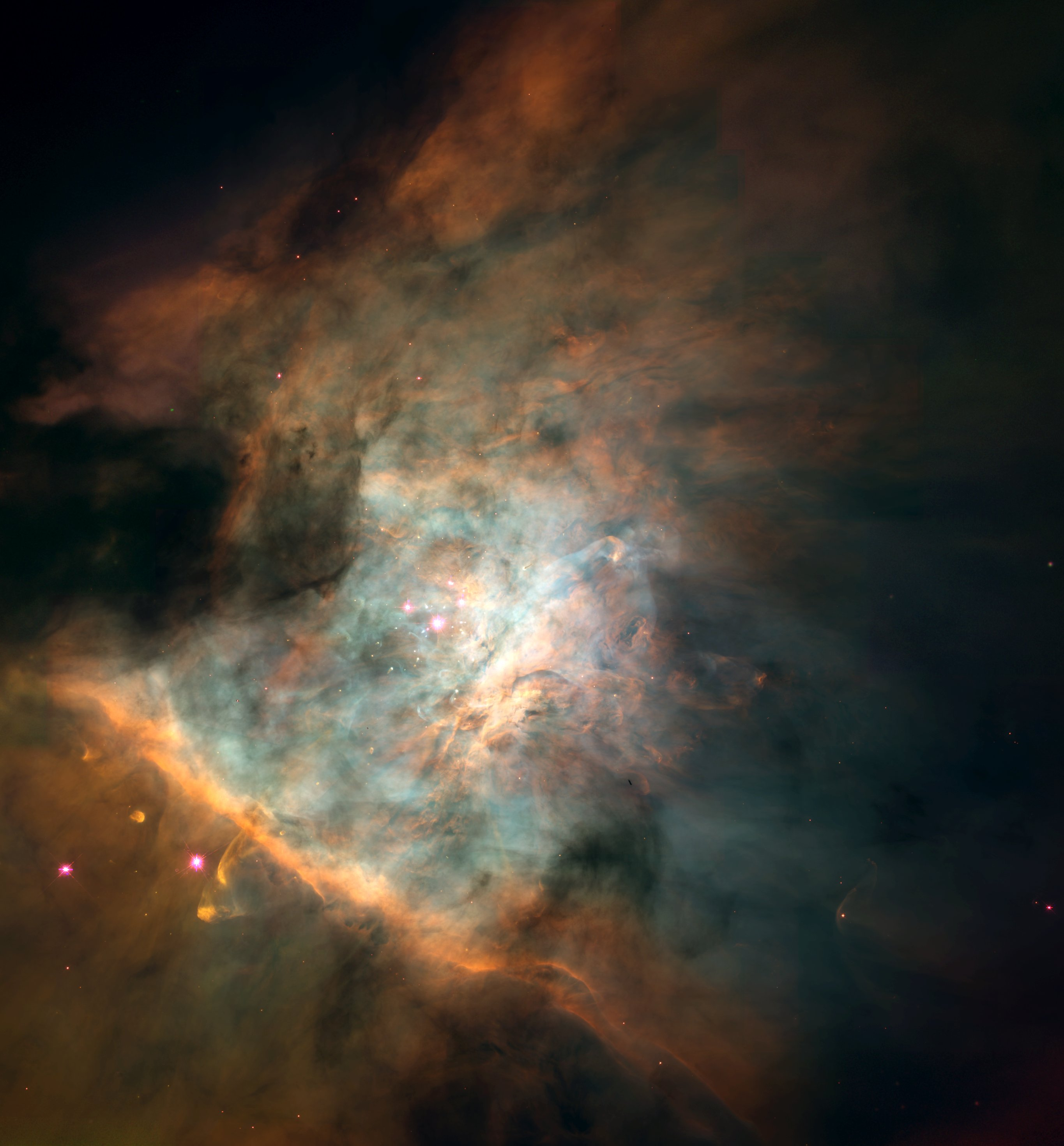 The Orion nebula in true colour.